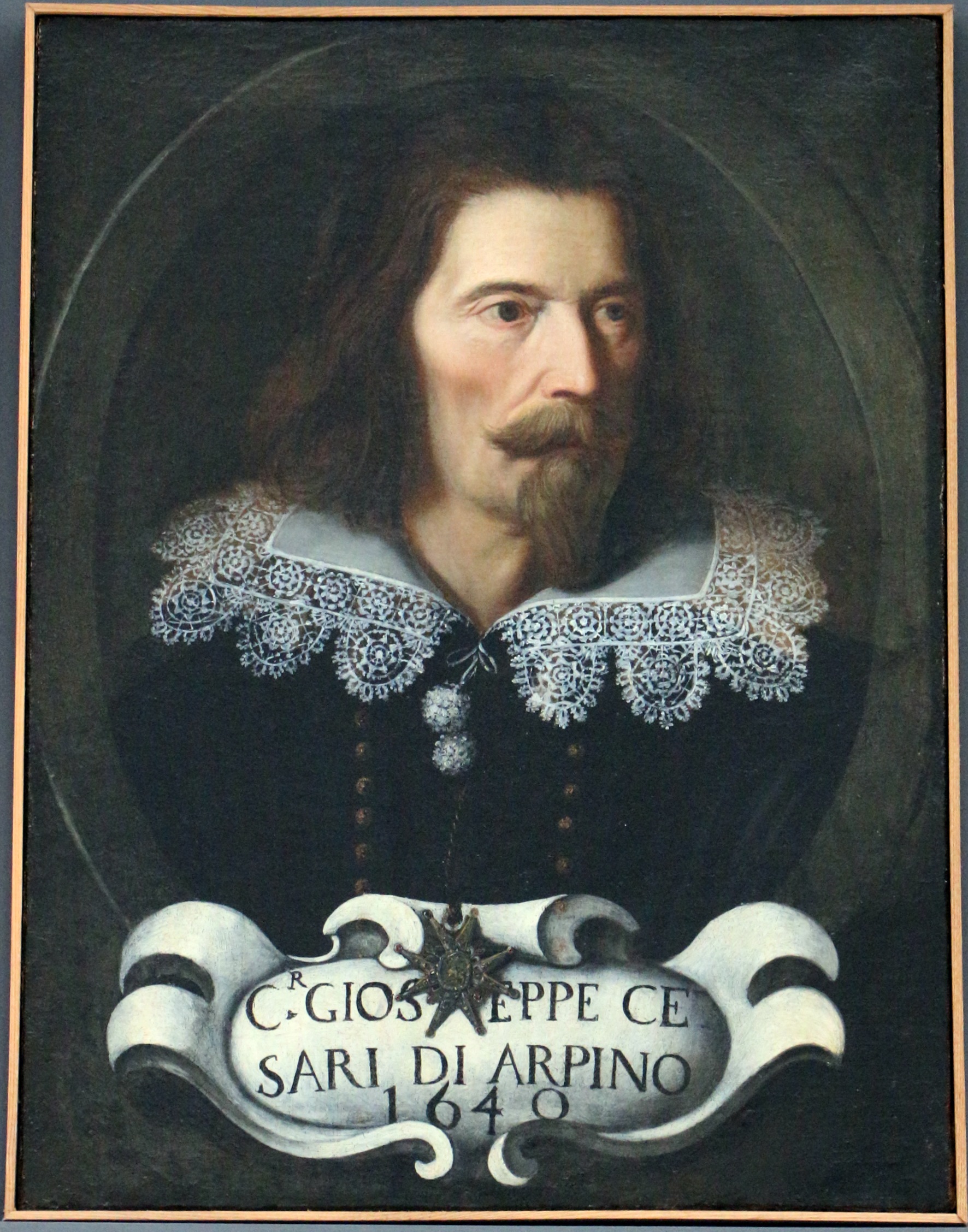 Accademia di San Luca - Gallery